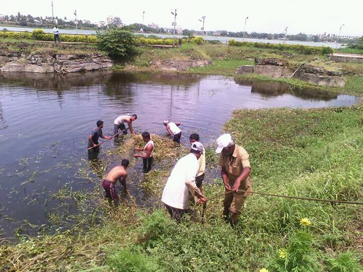 तलावातील कचरा,प्लास्टिक पिशव्या आदि काढतानाचा एक क्षण